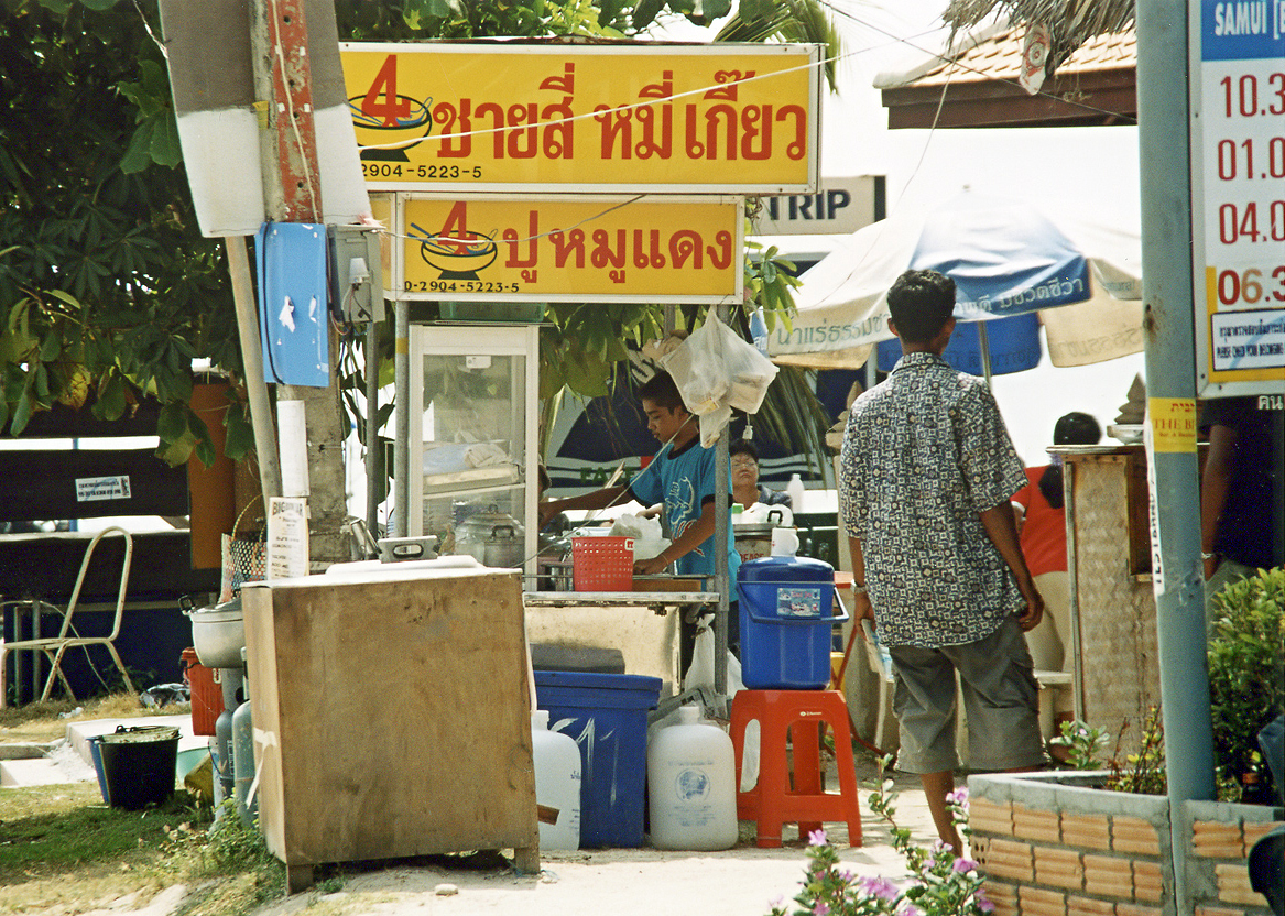 Street scene in Haad Rin (Ko Phangan, Thailand)